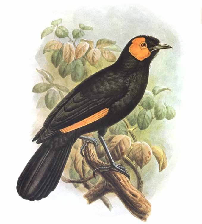 MacGregor's Honeyeater (Macgregoria pulchra)